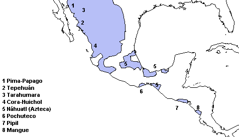 Extension of the uto-aztecan languages to the South